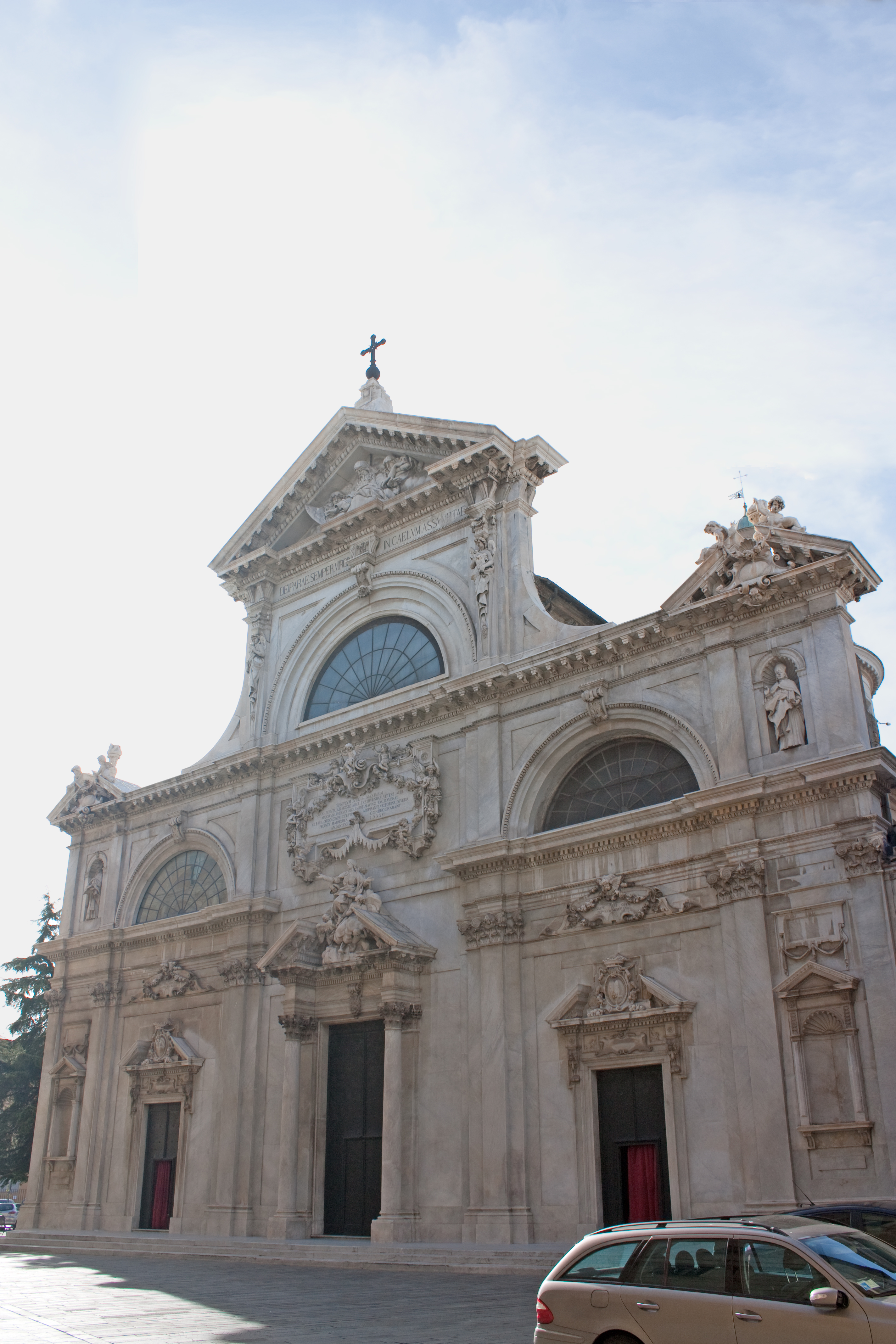 Facade of Savona Cathedral in Savona, Italy.